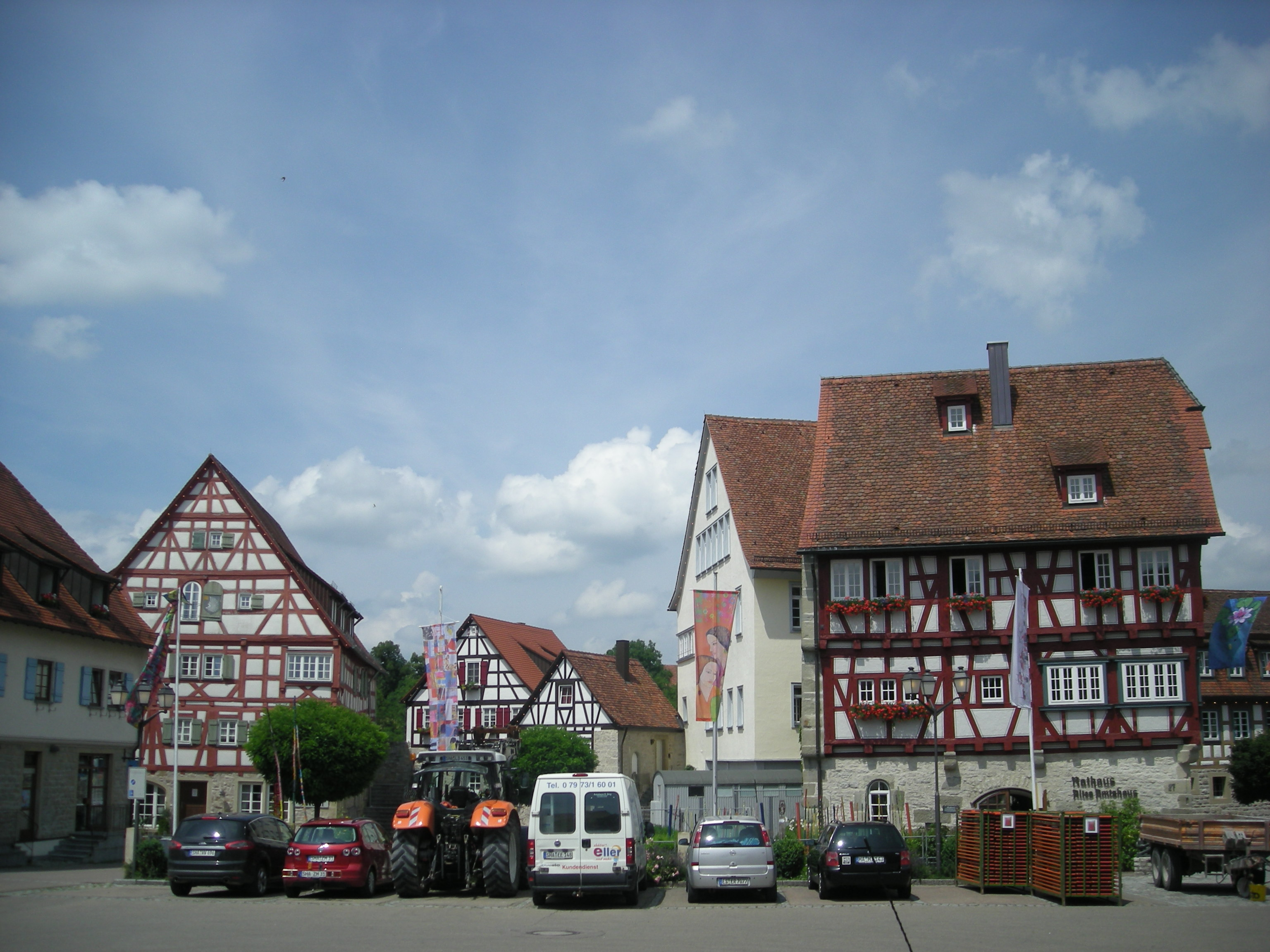 The Altstadt in Vellberg, Baden-Württemberg (Germany).